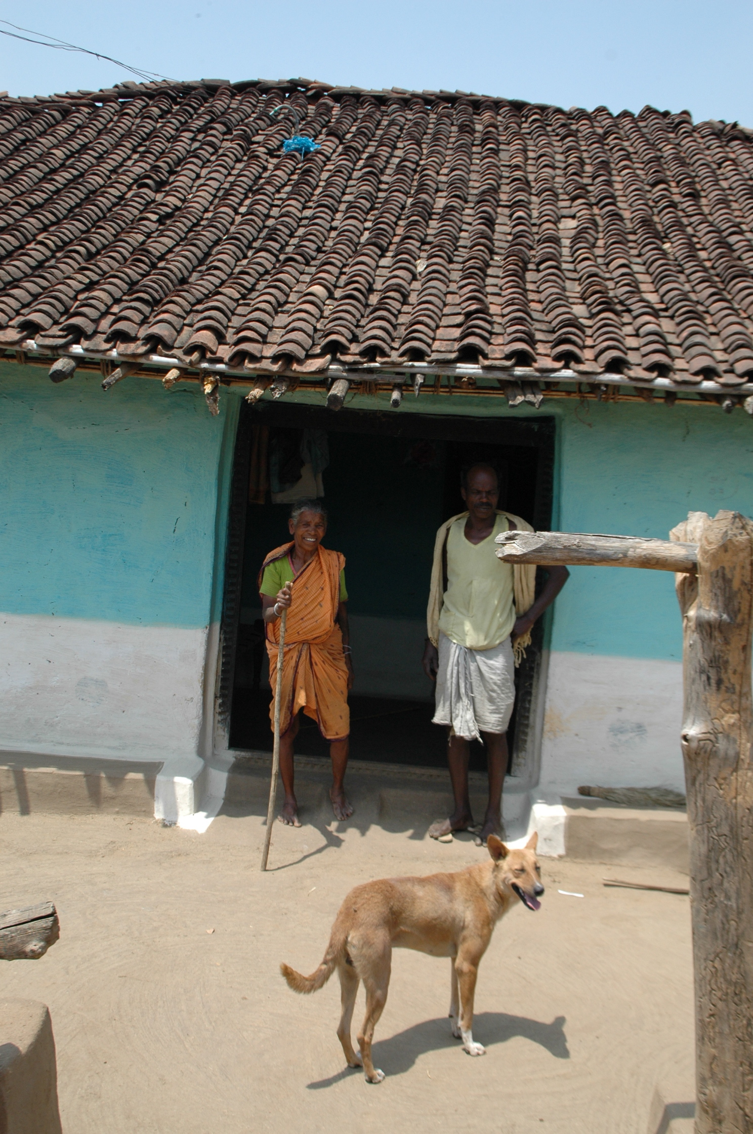 Pet INDog/Indian Pariah Dog with his owners who belong to the Gond tribe. This picture was taken near Pench Tiger Reserve, Central India.